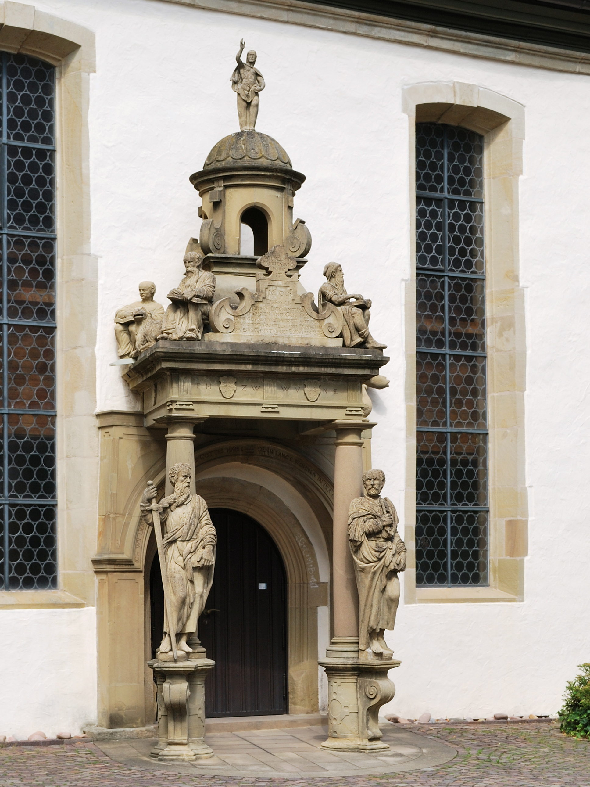 Entrance on the south side of the protestant Saint Lawrence Church in Hemmingen in the German Federal State Baden-Württemberg.